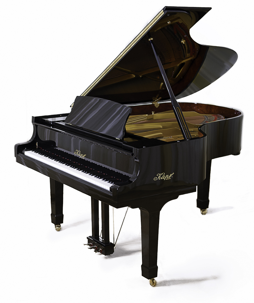 Ernst Kaps new model 158B made in 2012 piano photo taken in Australia by Ernst Kaps Pianofortefabrik